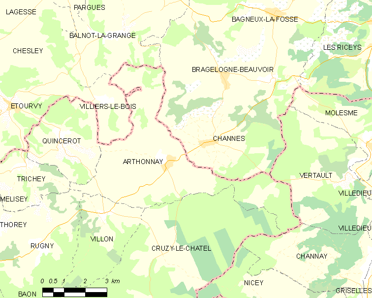 Map of French municipality Arthonnay